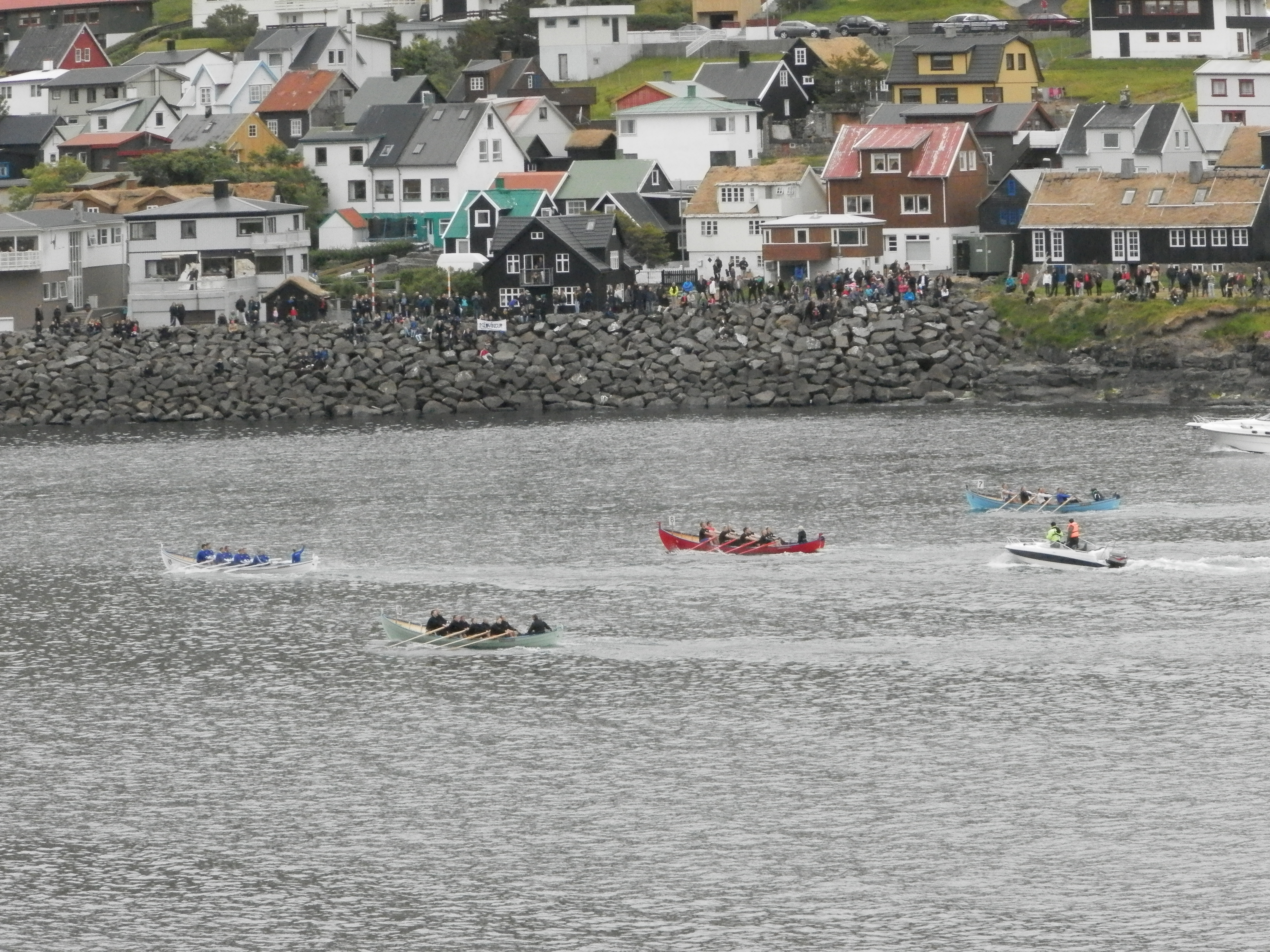 Faroese rowing race in Faroese wooden boats on Vestanstevna in Sandavágur on Vágar island.This race was in the category 8-mannafør, which is the second largest boat type. The white boat from Miðvágur won the race with the time 04:36.08, Argjabáturin (the red boat) was second in the time 04:42.03, Kvívíkingur number three 04:42.22 and Gullbrandur number four 04:46.03. Føroyskt: Kappróður á Vestanstevnu 2012 í Sandavági, 8-mannafør. Miðvingur vann við tíðini 04:36.08, Argjabáturin nr. 2 við tíðini 04:42.03, Kvívíkingur nr. 3 við tíðini 04:42.22 og Gullbrandur nr. fýra við tíðini 04:46.03.